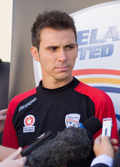 Catalan footballer Isaías Sánchez being presented to the media at Adelaide United training. (29 July 2013)